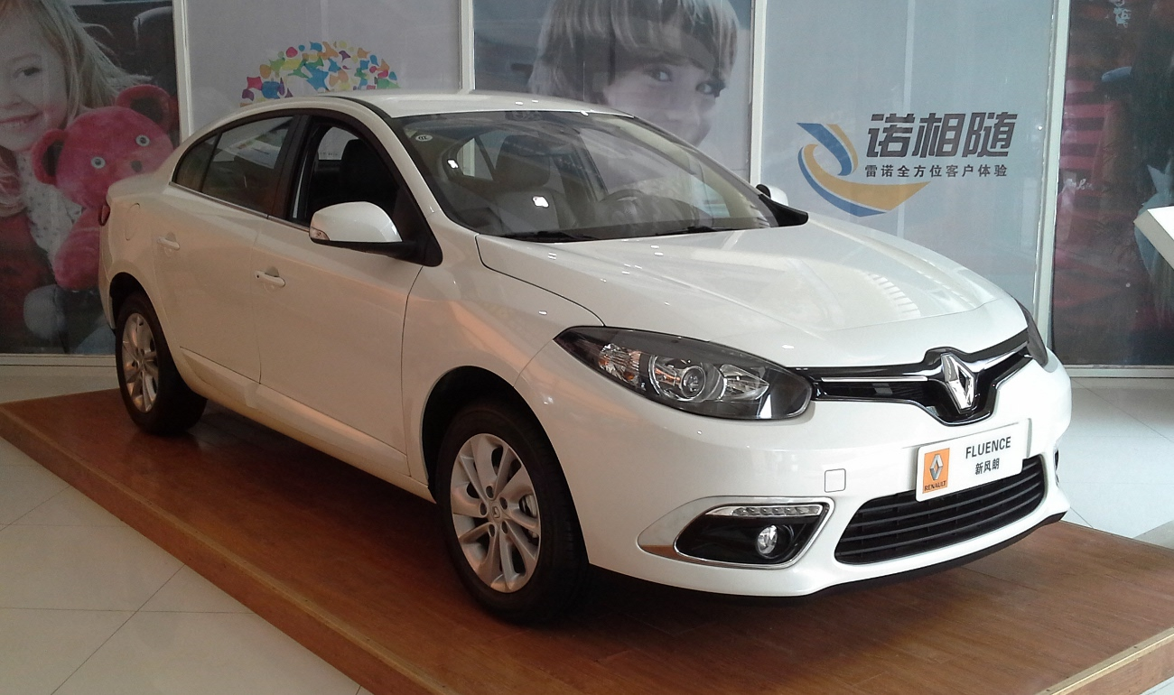 Renault Fluence facelift II photographed in Wuhan, Hubei province, China.